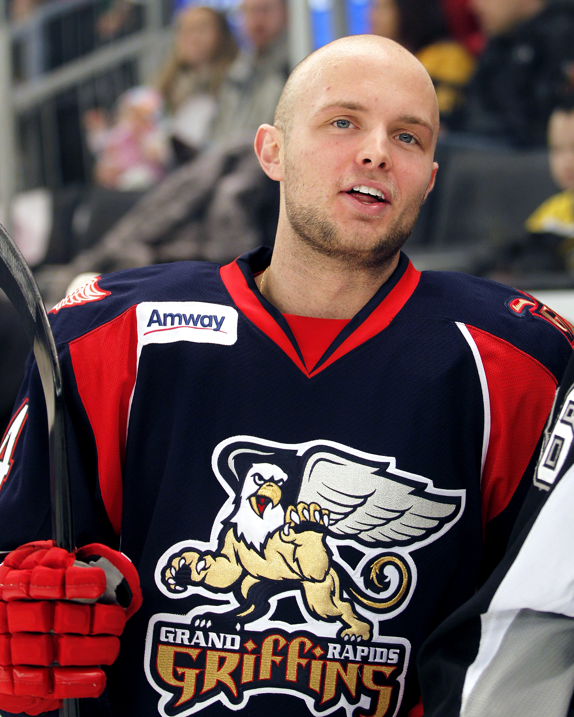 Billins American Hockey League (AHL). 2013 All-Star Skills Competition. Taken on January 27, 2013.